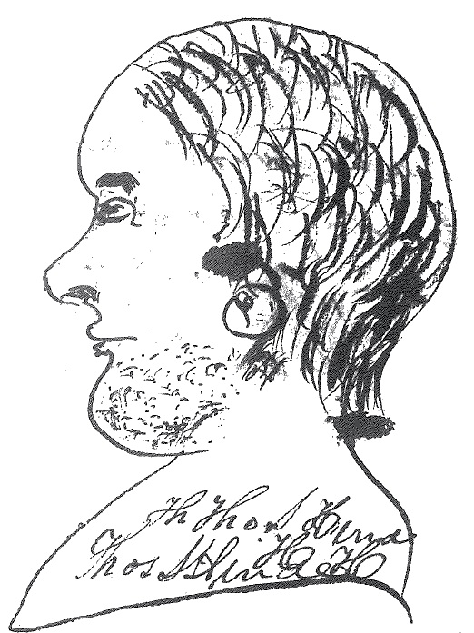 Rough Sketch by John Madison Hinde, during his early years, of his father, Thomas S. Hinde. The sketch is contained in the diaries of Thomas S. Hinde located at the Wisconsin Historical Society in the Draper Manuscripts Collection in the Hinde Papers 3Y97.